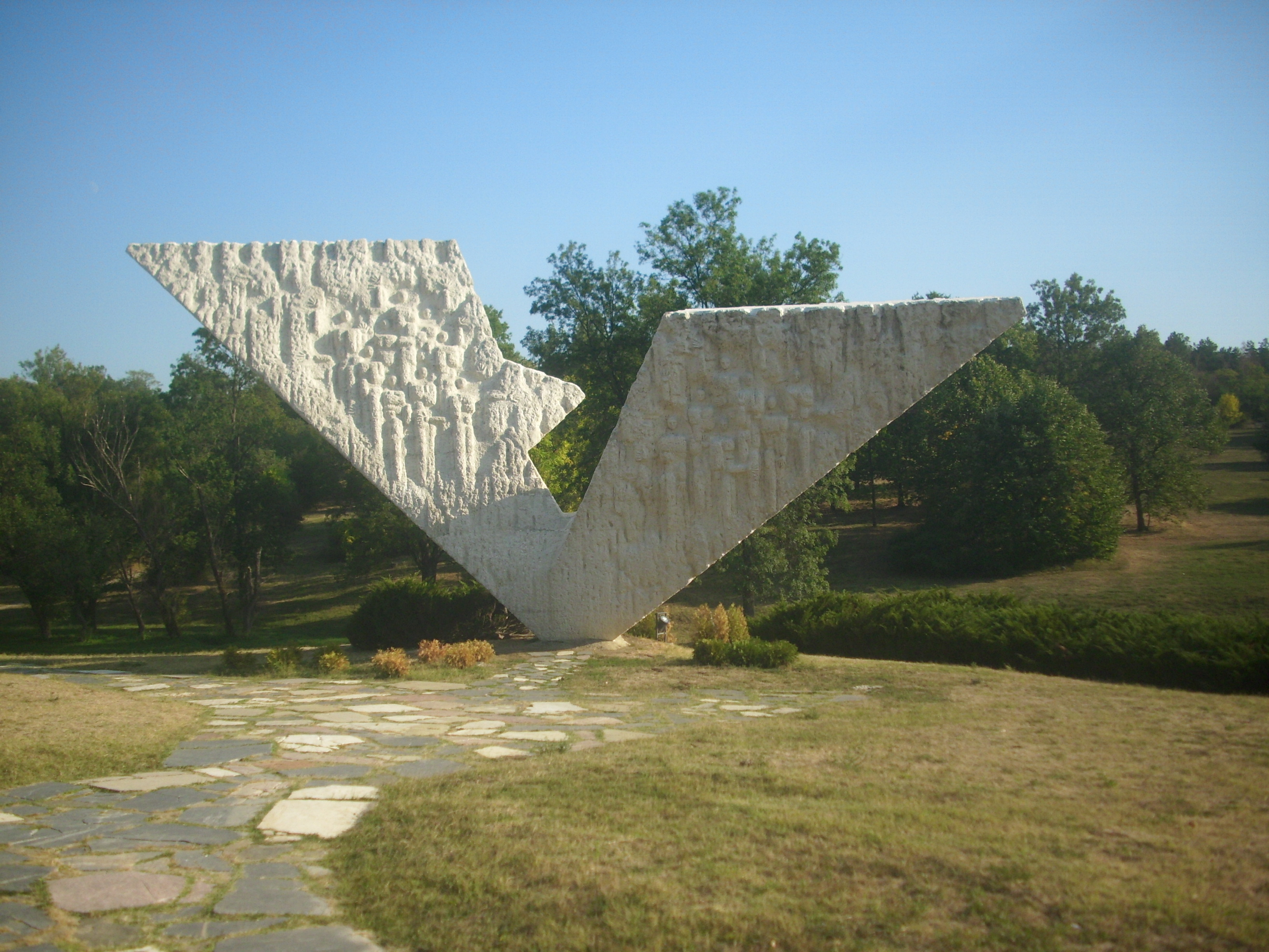 Monument "Interrupted Flight" within the Šumarice Memorial Park in Kragujevac, Serbia. It was built in memory of the victims of the Kragujevac massacre in World War II.